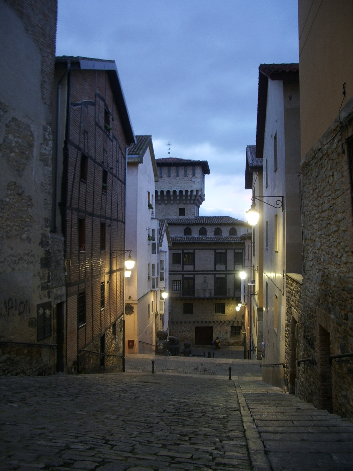 Butcher's corner (street) at night, Vitoria, Basque Country